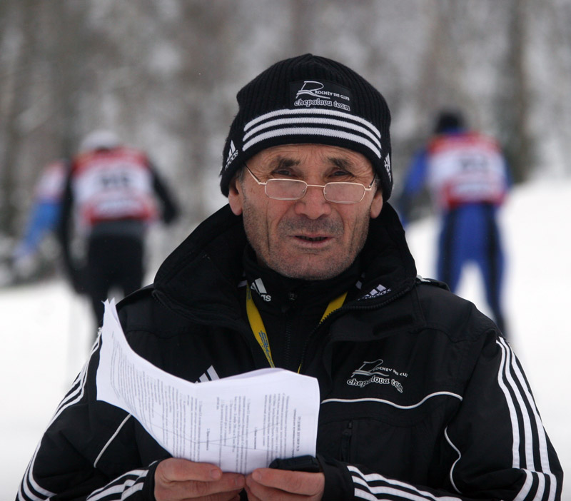 Anatoliy Tchepalov